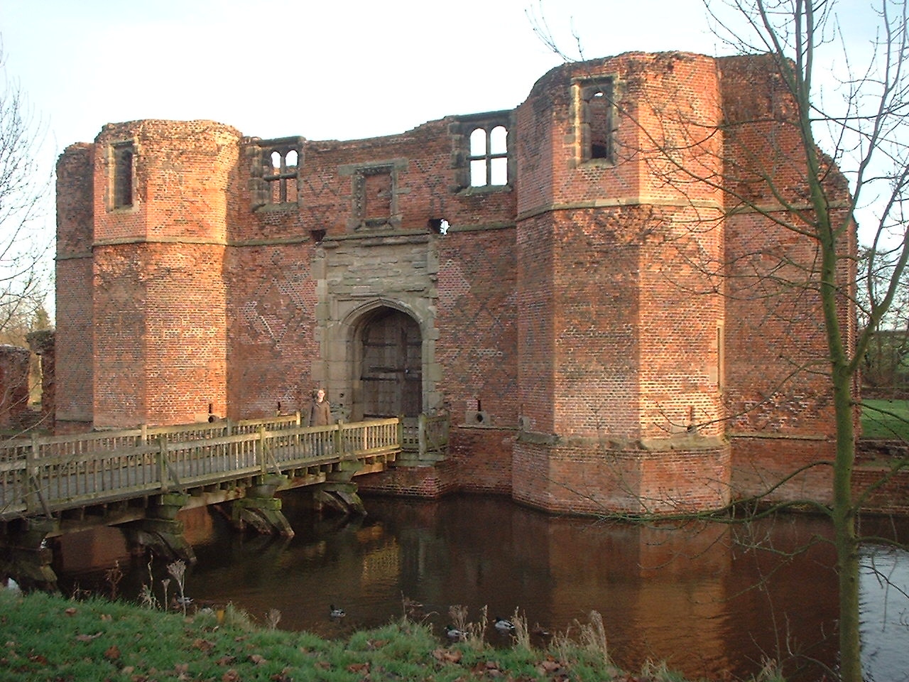 Kirby Muxloe Castle, own picture